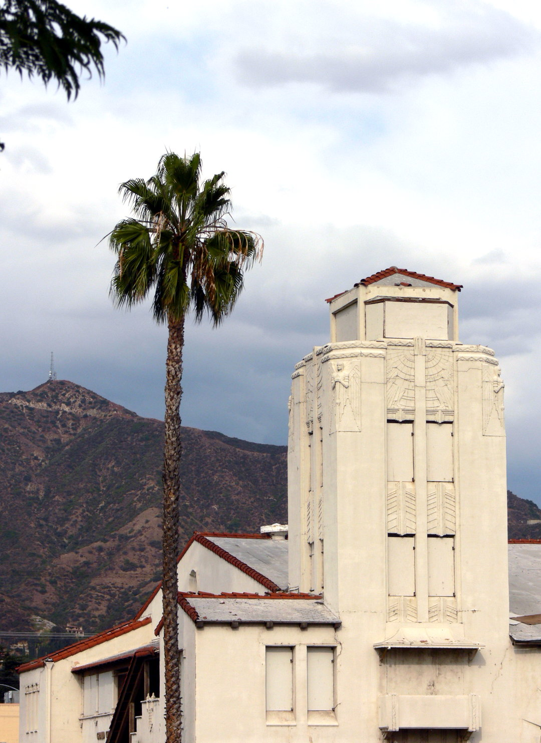 Grand Central Air Terminal at 1300 Air Way in Glendale, California, as seen from Grand Central Avenue (which was originally the airport's runway). Mount Thom of the Verdugo Mountains is the peak with the antenna facility that is visible in the background. This building is now part of Disney's project Grand Central Creative Campus.